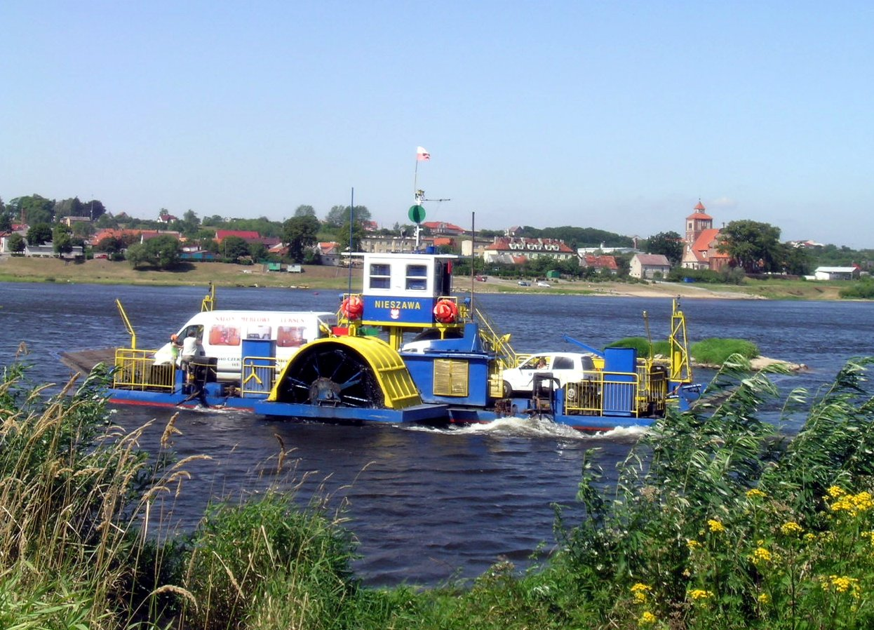 Nieszawa, Poland, ferry-boat at Vistula river. At the backround the city and church of St. Hedwing can be seen